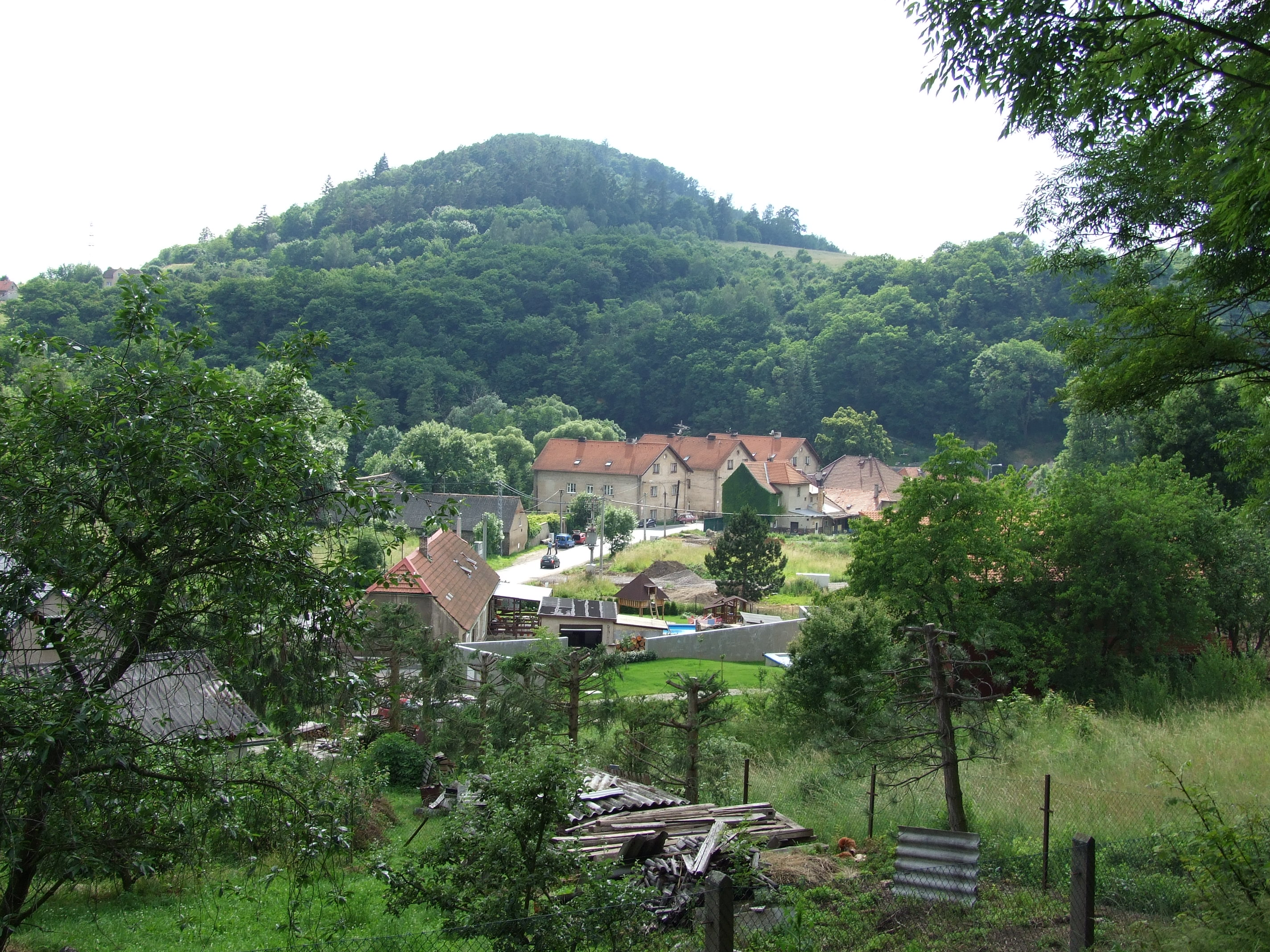 Hřeben mount from edge of Chrustenice village and part of the village itselfhelp